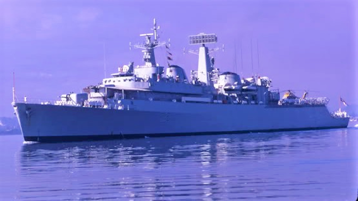 HMS London (D16 - unmarked) entering Southampton in summer, 1966. Photographed by Combat Information Operator (Radar Plotter) on the HMCS St. Laurent. The photo is cropped 16:9, allowing use as PC Background or Apple wallpaper.